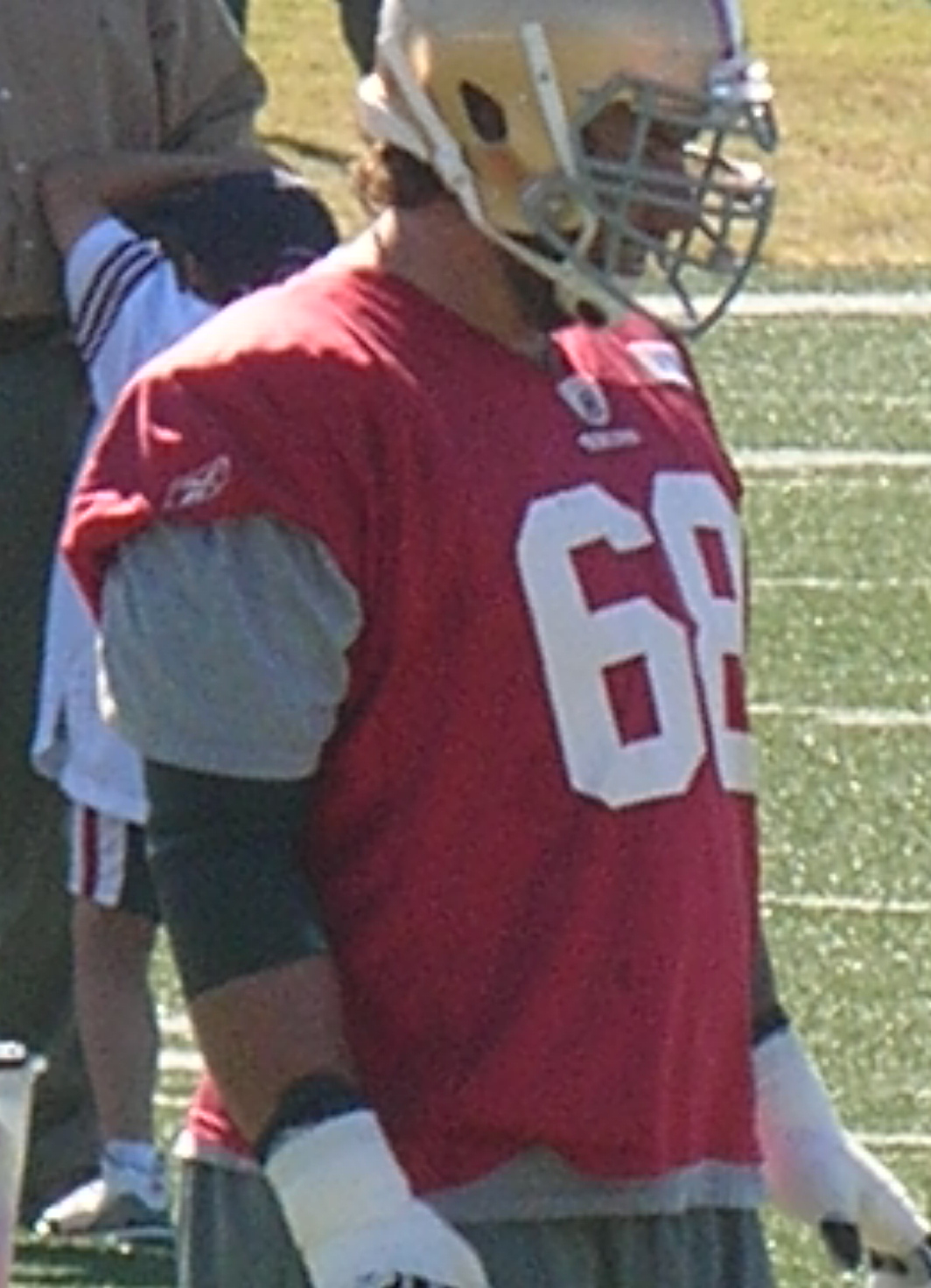 San Francisco 49ers tackle Adam Snyder at training camp in Santa Clara, California.